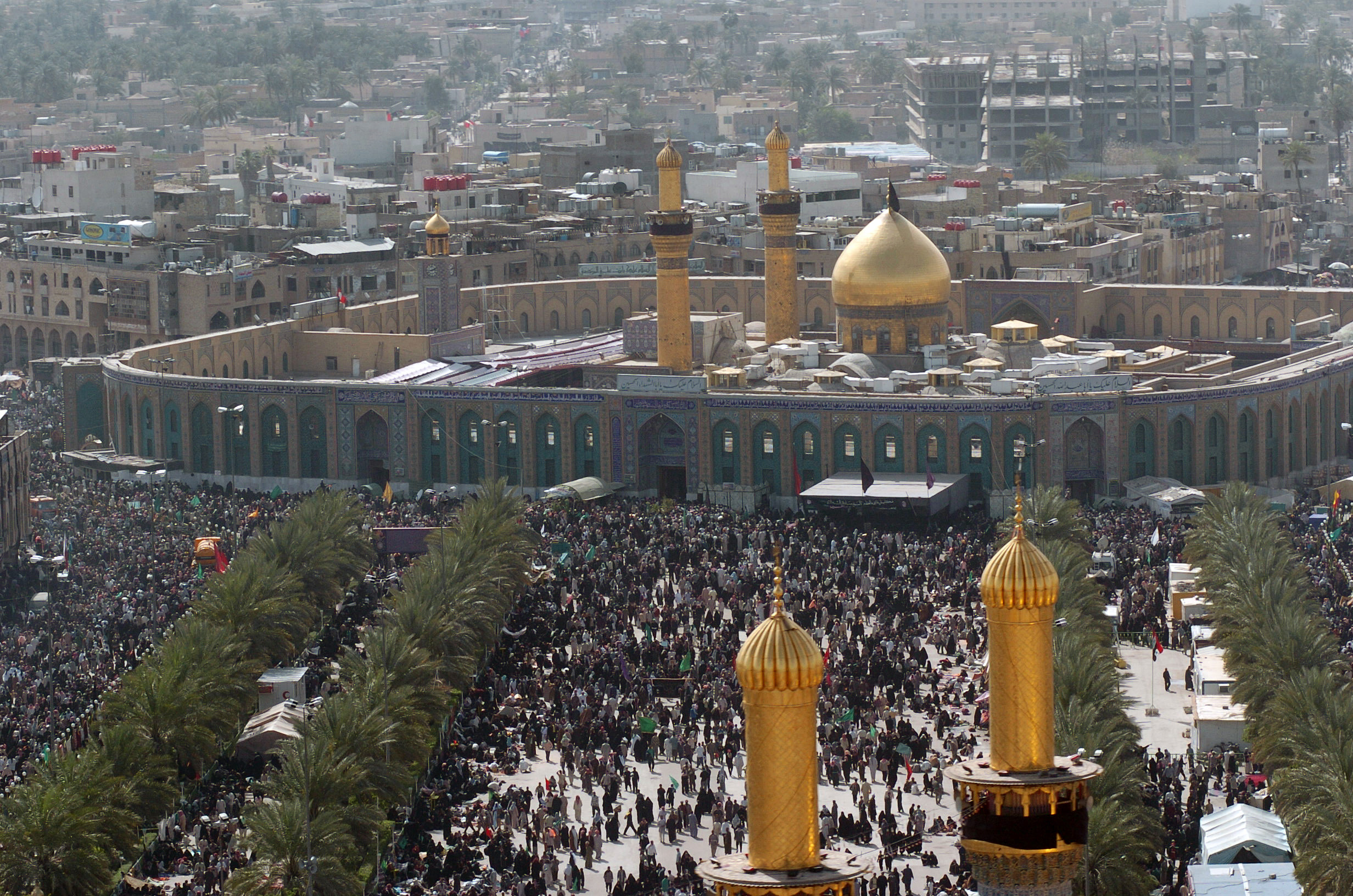 Millions of Shia Muslims gather around the Husayn Mosque in Karbala after making the Pilgrimage on foot during Arba'een. Arba'een is a forty day period that commemorates the martyrdom of Husayn bin Ali, grandson of the Prophet Muhammad, and seventy-two of his followers at the Battle of Karbala in the year 680AD.